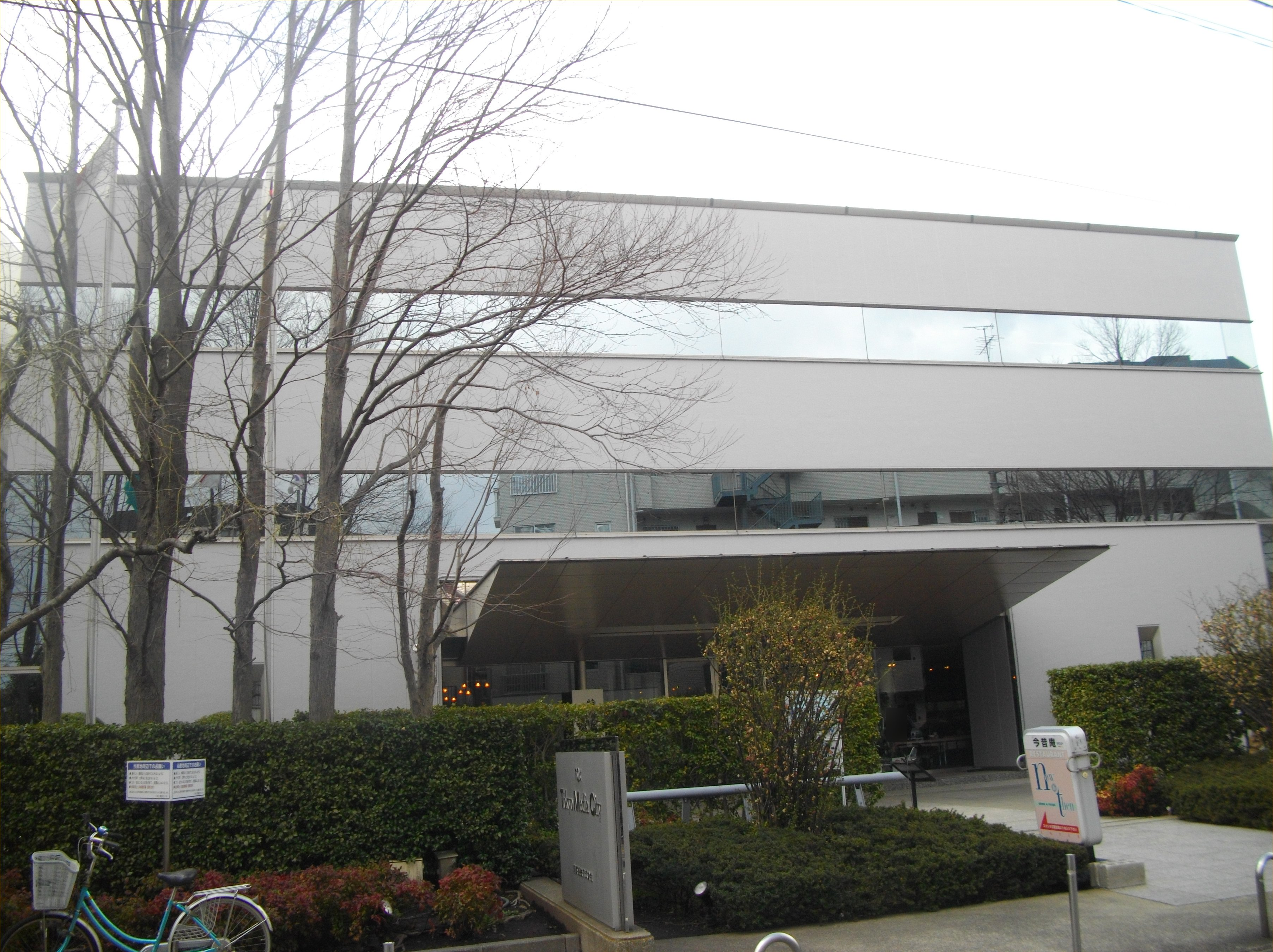 A photo of an overview of Tokyo Media City(a representative TV studio in Tokyo,Japan.) Kinuta,Setagaka-ku,Tokyo,Japan.